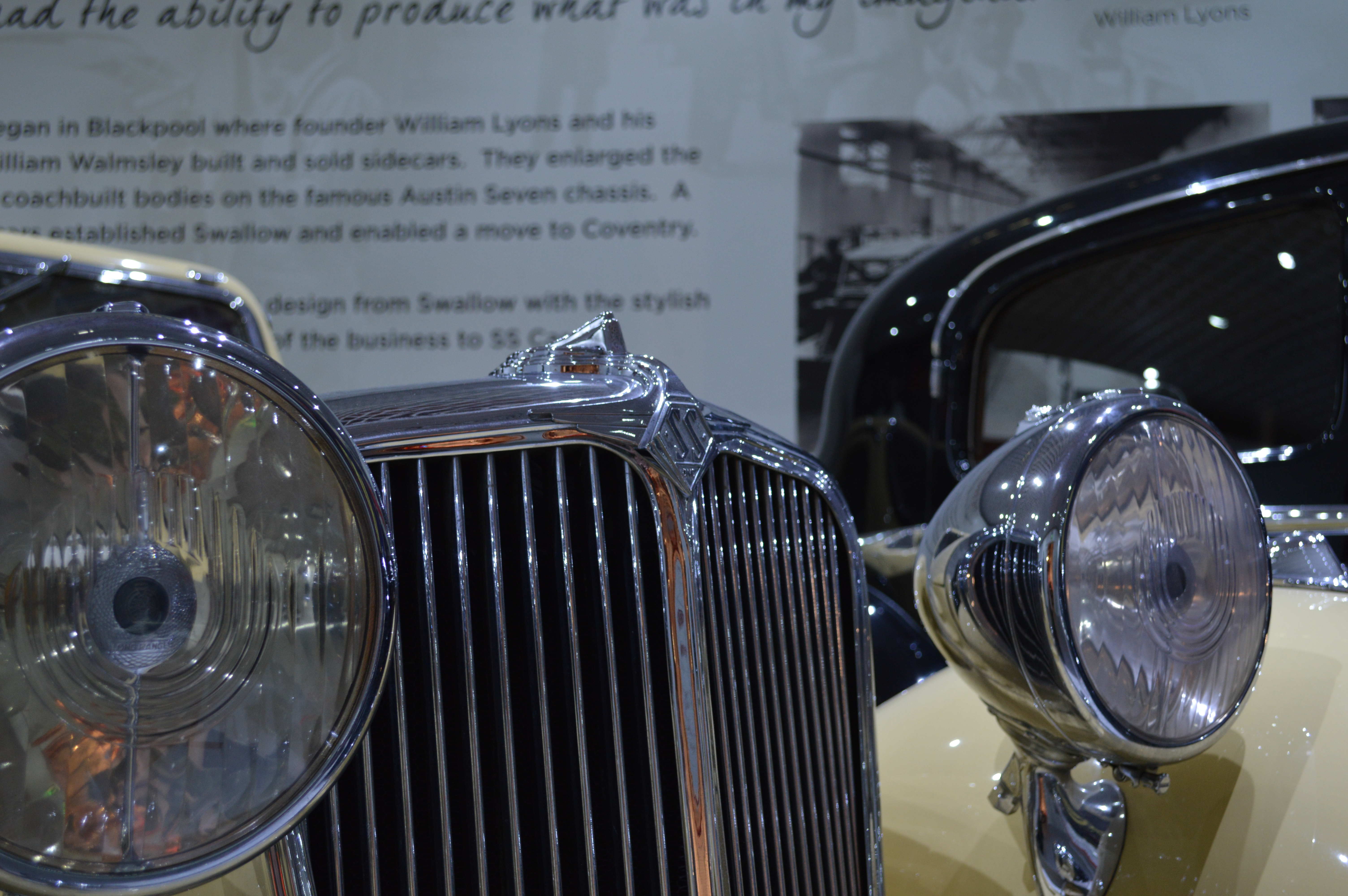 S. S. ONE badge grille and headlights